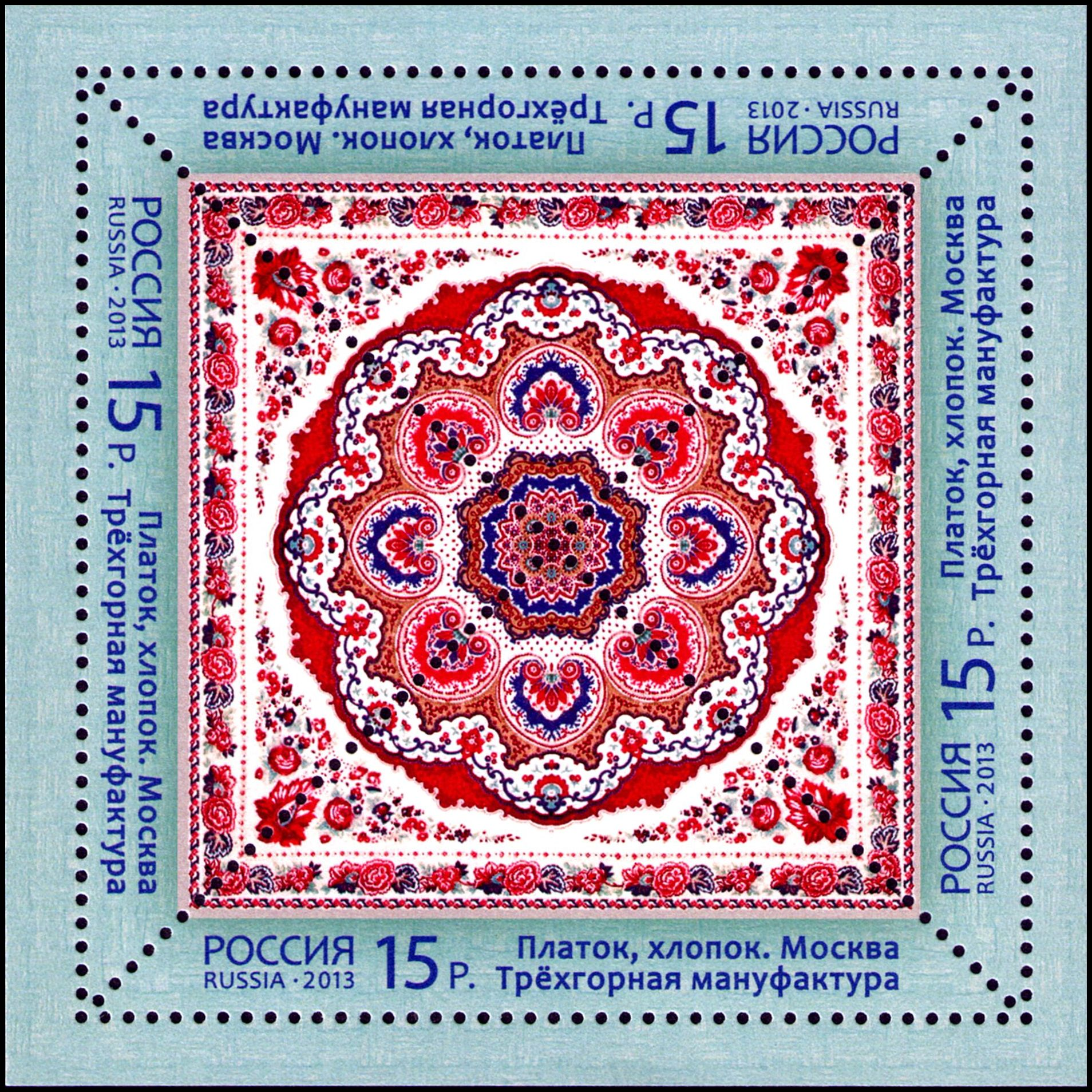 Decorative and Applied Arts of Russia (ongoing stamp series, issue III). Headscarves. A headscarf of cotton. The Trekhgornaya Textile Mill. Moscow. The stamp of Russia, 15.00 Rubles, 5 July 2012, PTC Marka Catalogue No 1714, Michel No 1946. The triangular stamps were issued in the sheets of small format: 4 stamps in 1 sheet. Coated paper. Multioloured. Perforation: frame 11½. Size of the stamp: 50×50×70 mm (35×70 mm). Size of the stamp sheet: 80×80 mm. Print run: 200,000 stamps.